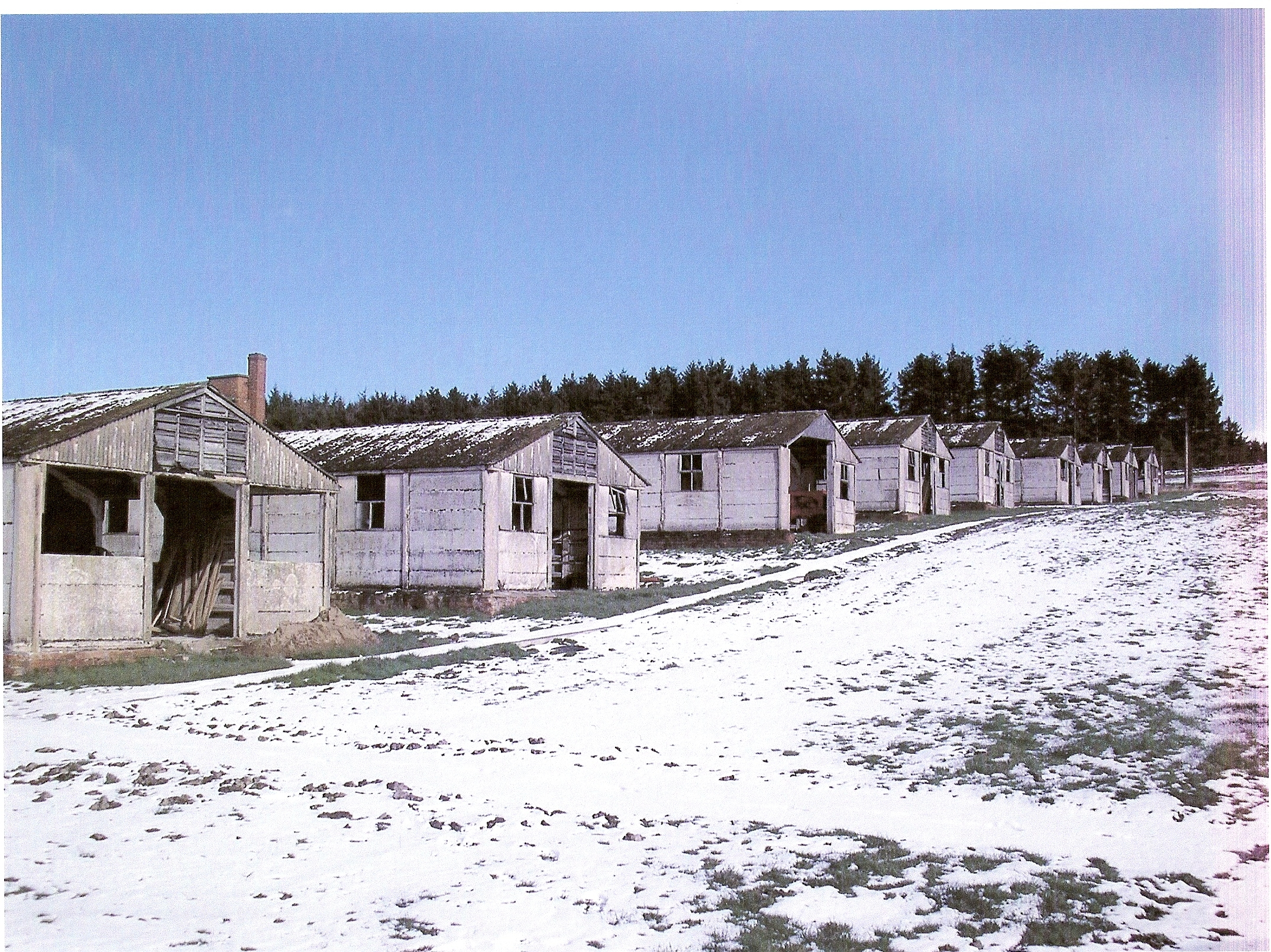 A view of SE corner of Camp 93